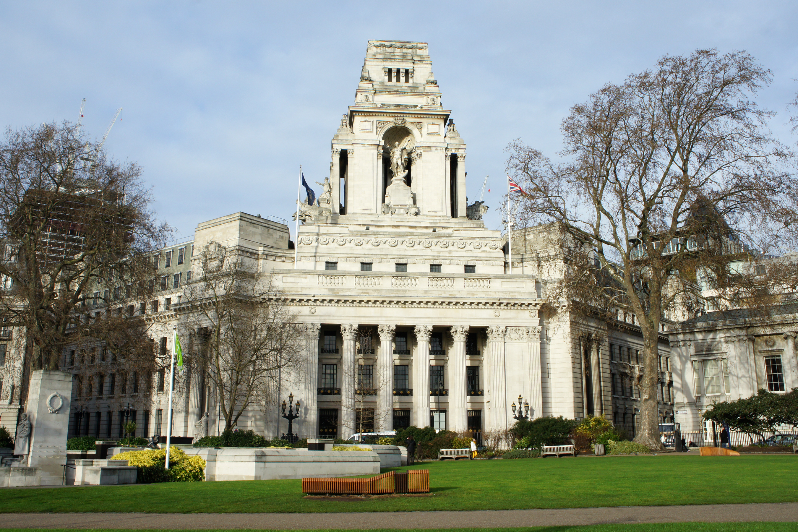 Port of London Authority building at Trinity Square Gardens in Tower Hill, London.